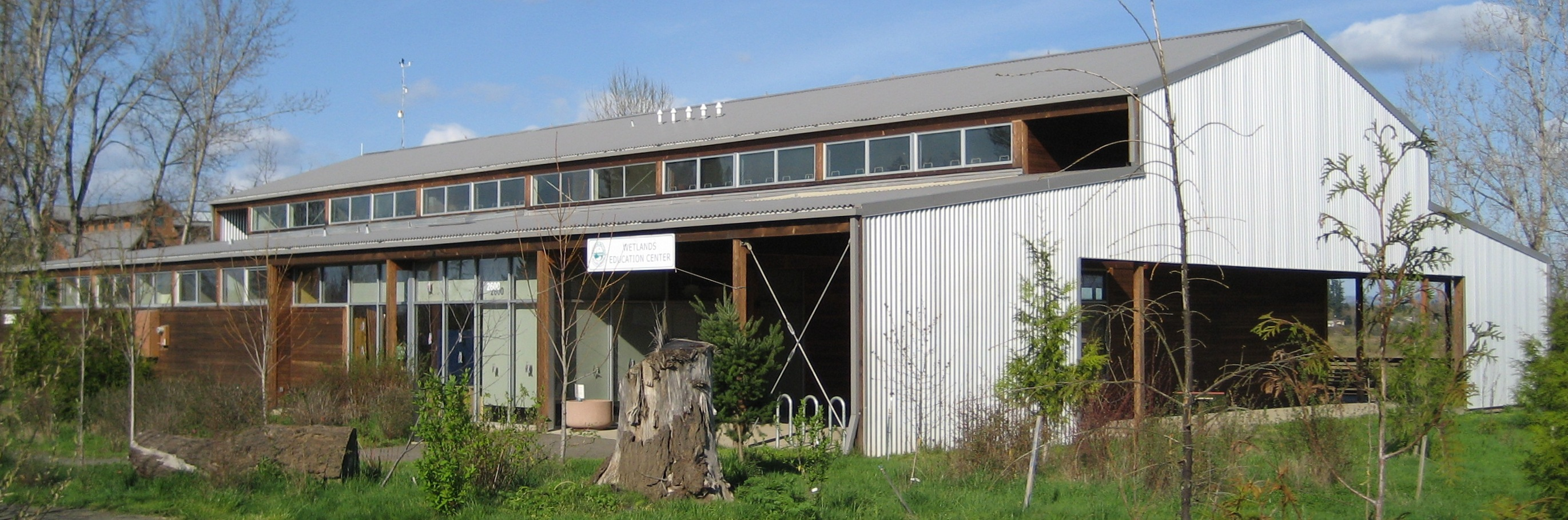 Jackson Bottom Wetlands Preserve in Hillsboro